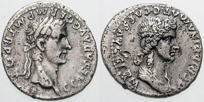 GAIUS CALIGULA and AGRIPPINA. 37-41 AD. AR Denarius (3.58 gm). Struck 37 AD. C CAESAR AVG GERM P M TR POT, Laureate head of Caligula right / AGRIPPINA MAT C CAES AVG, draped bust of Agrippina right. RIC I 14; BMCRE 15; RSC 2. VF, surfaces pitted in plait behind. RSC 2.